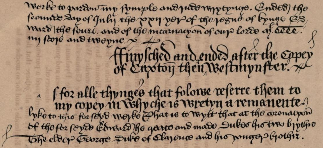 End of the copy of Caxton's Brut and beginning of John Warkworth's original chronicle: facsimile of Cambridge Peterhouse MS 190 f 214v